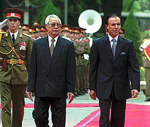 PRIMER MINISTRO DE LA REPUBLICA SOCIALISTA DE VIETNAM, VO VAN KIET recibió al PRESIDENTE DE LA REPUBLICA ARGENTINA, DR. CARLOS SAUL MENEM